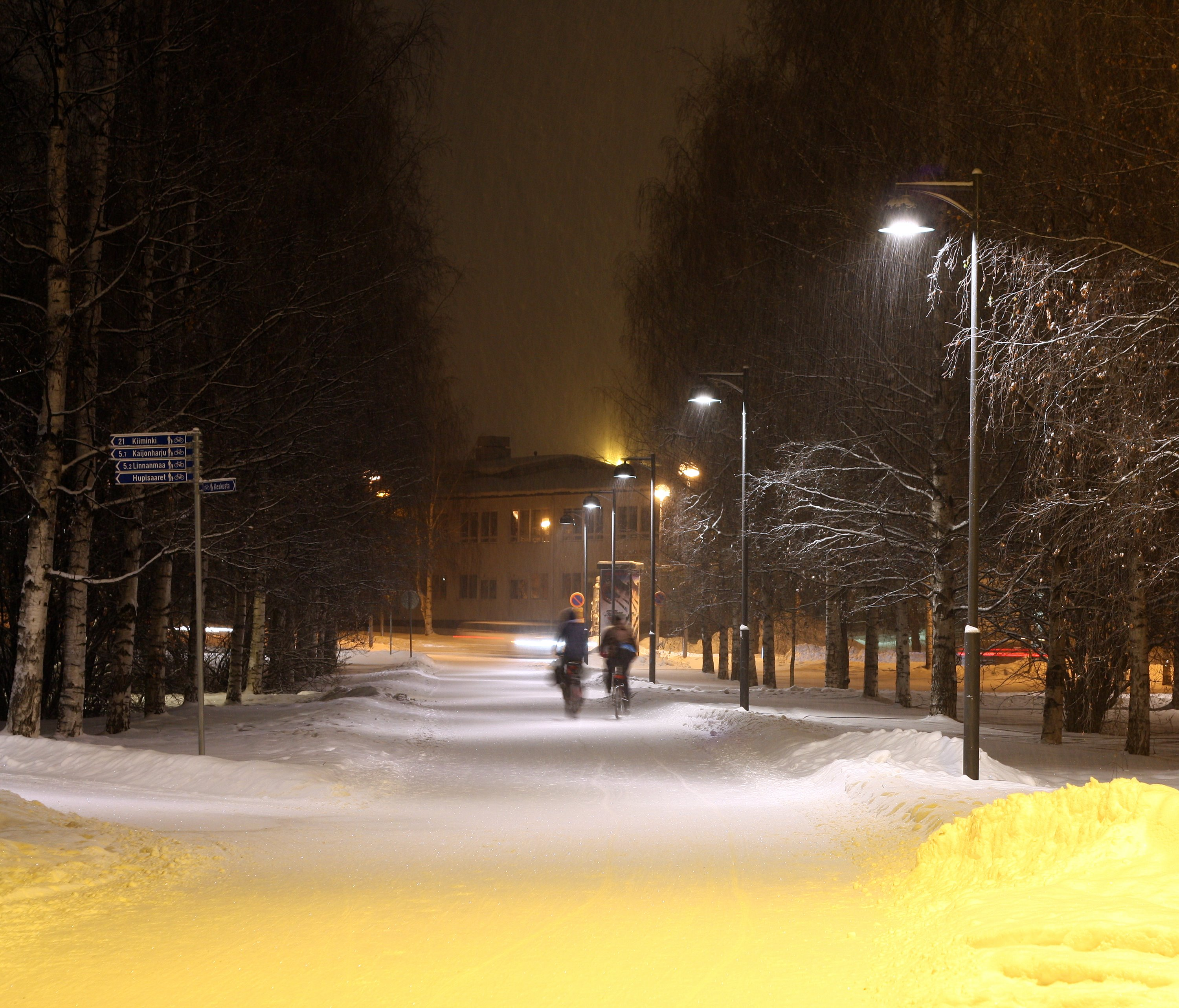 Åström's Park